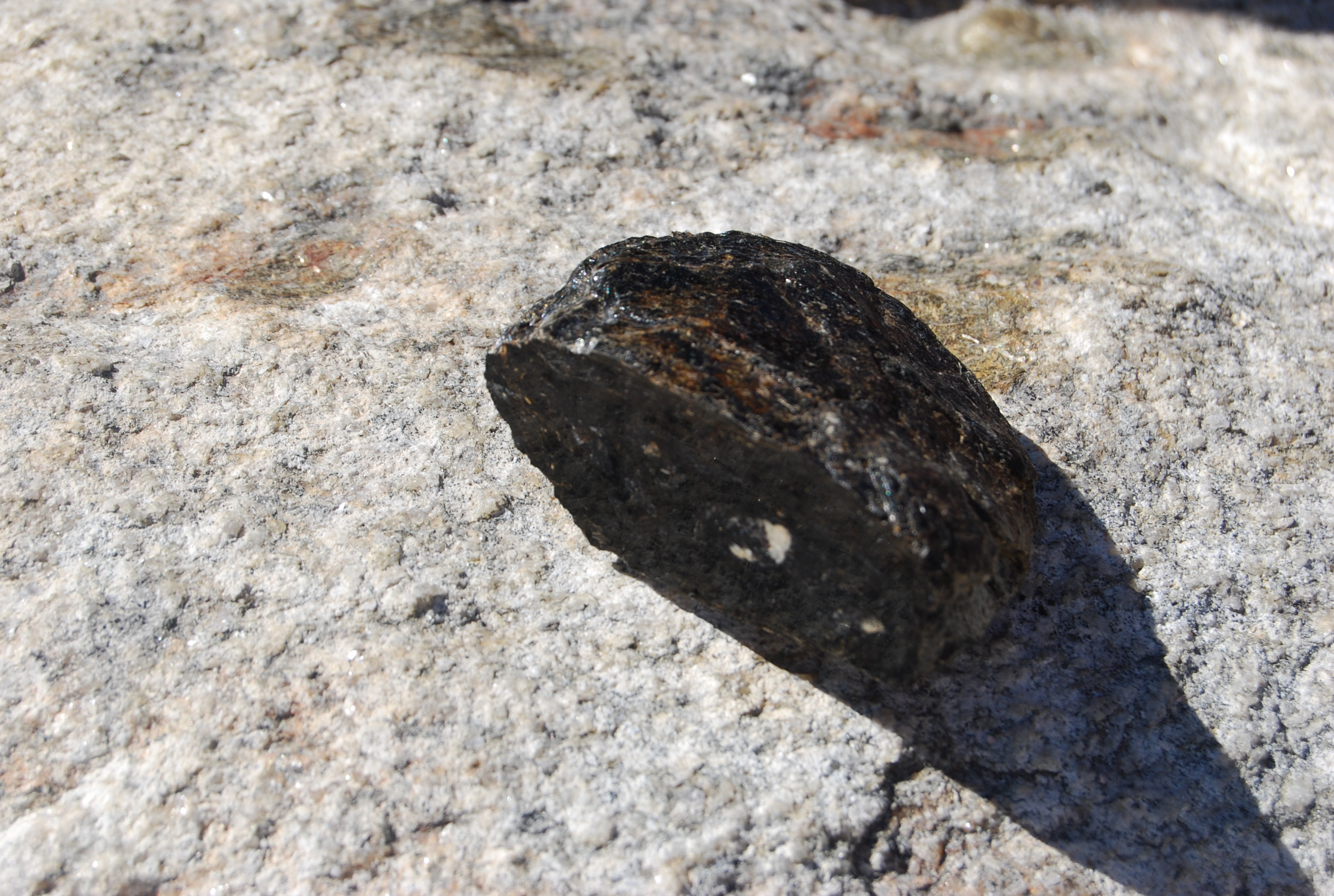 This file was uploaded for Wiki Loves Monuments in Portugal with the unique identifier 97008573.